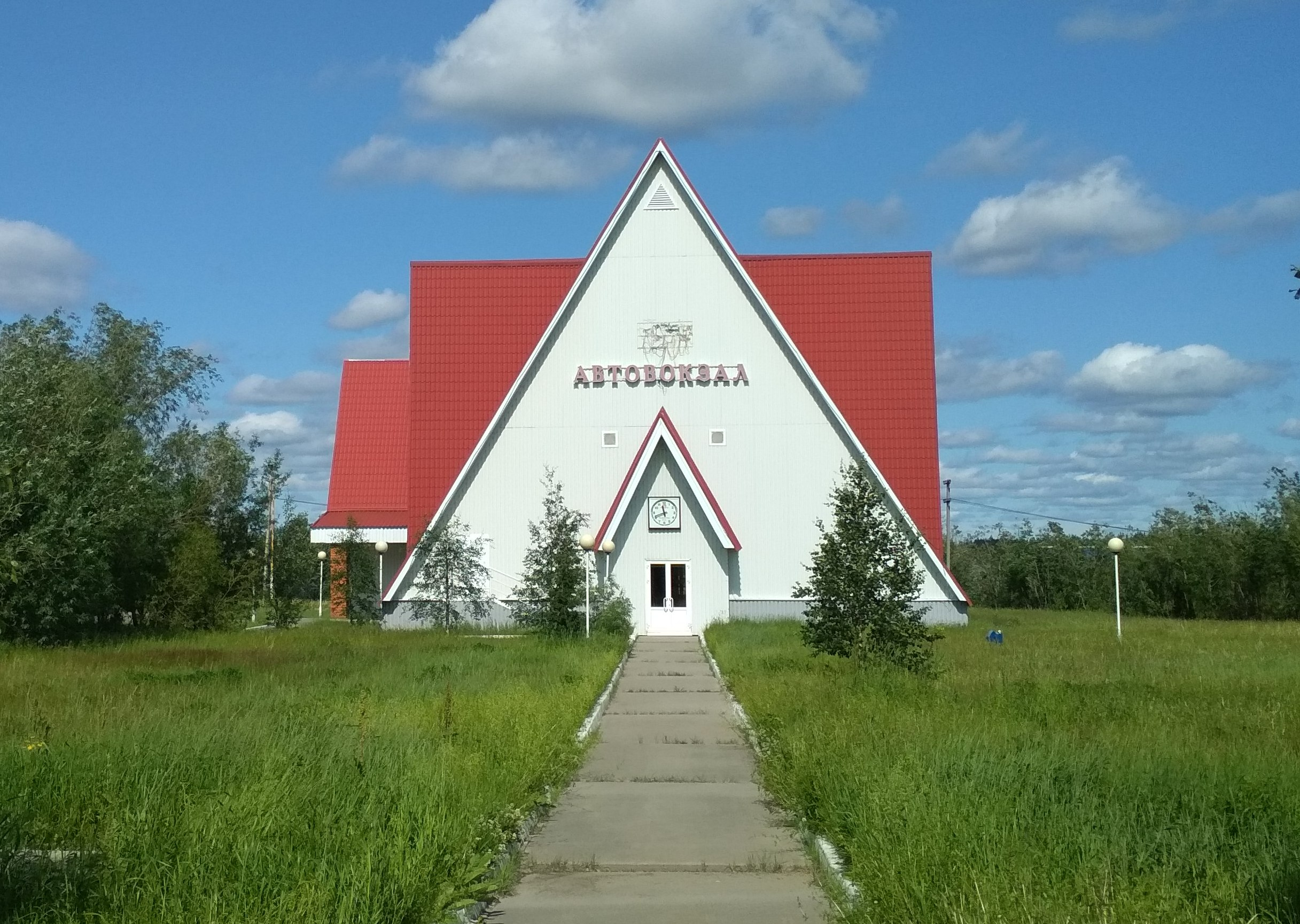 Bus terminal building city Usinsk Komi Republic